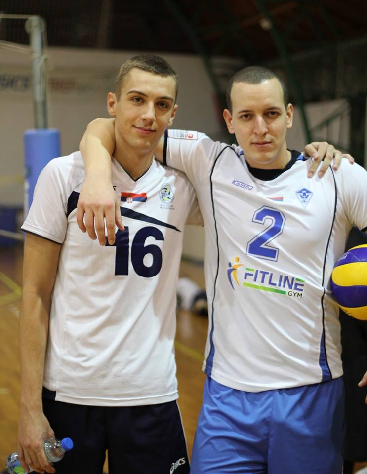 Negoslav Vuksanovic